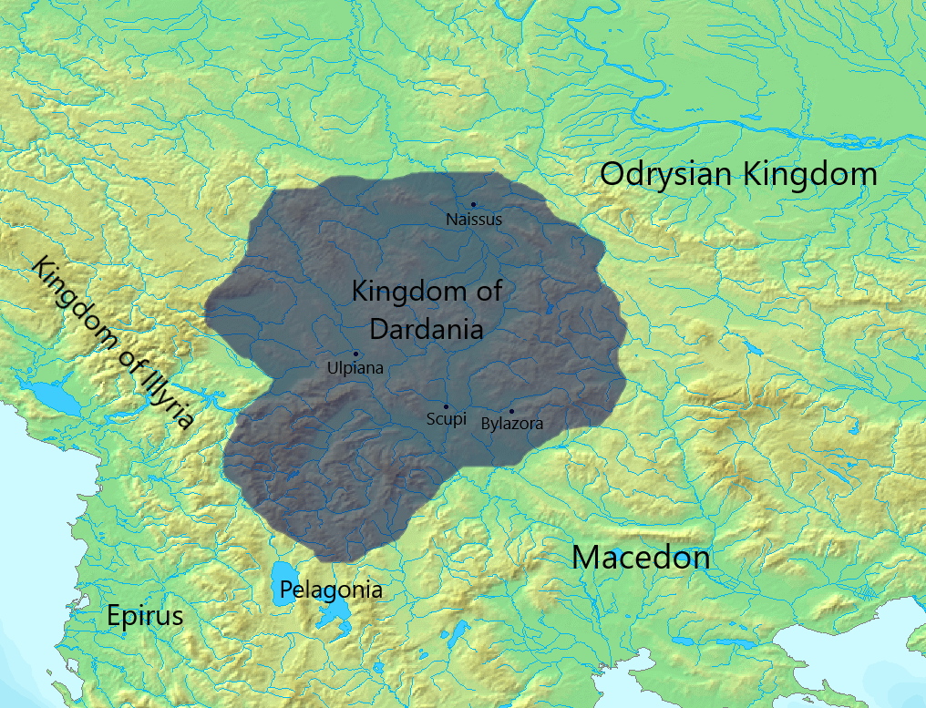 Dardanian Kingdom at its peak